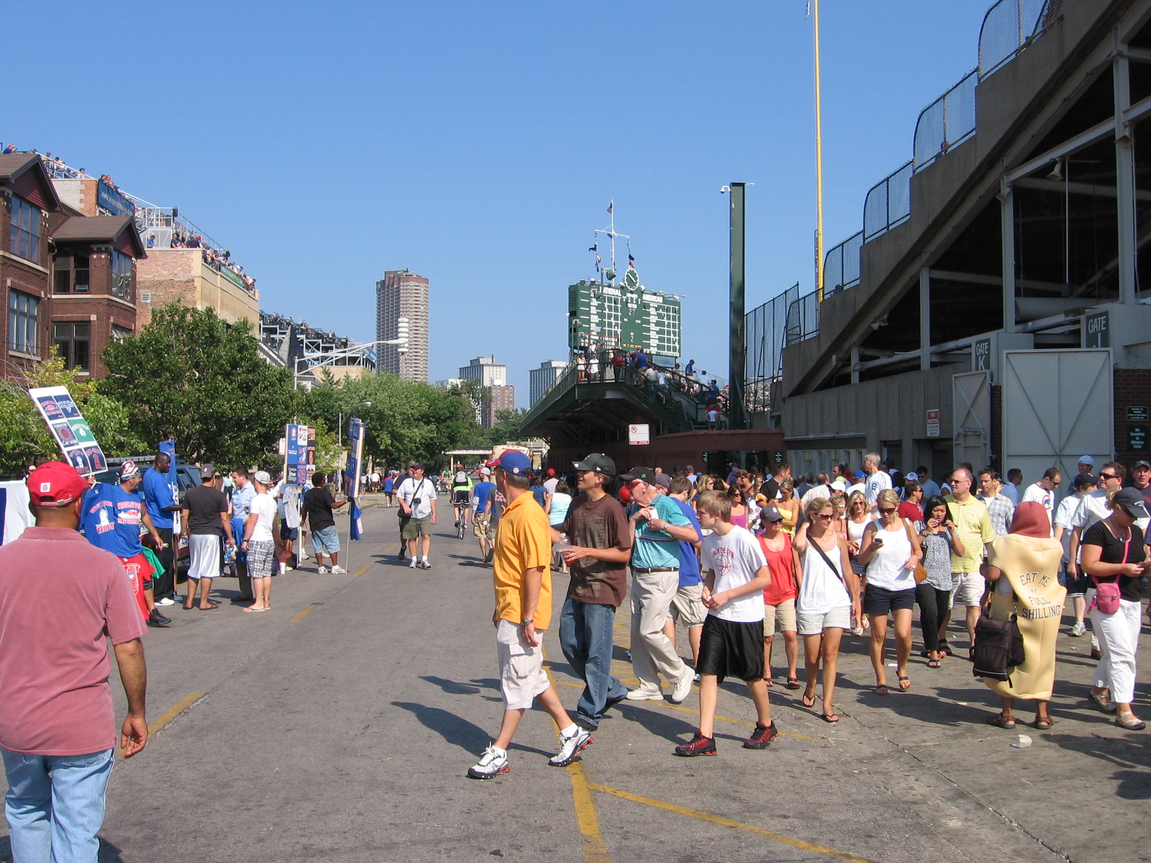 Waveland Avenue outside Wrigley Field during a Chicago Cubs game, August 14, 2009.